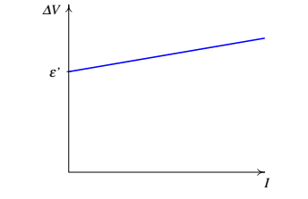 Tensão led